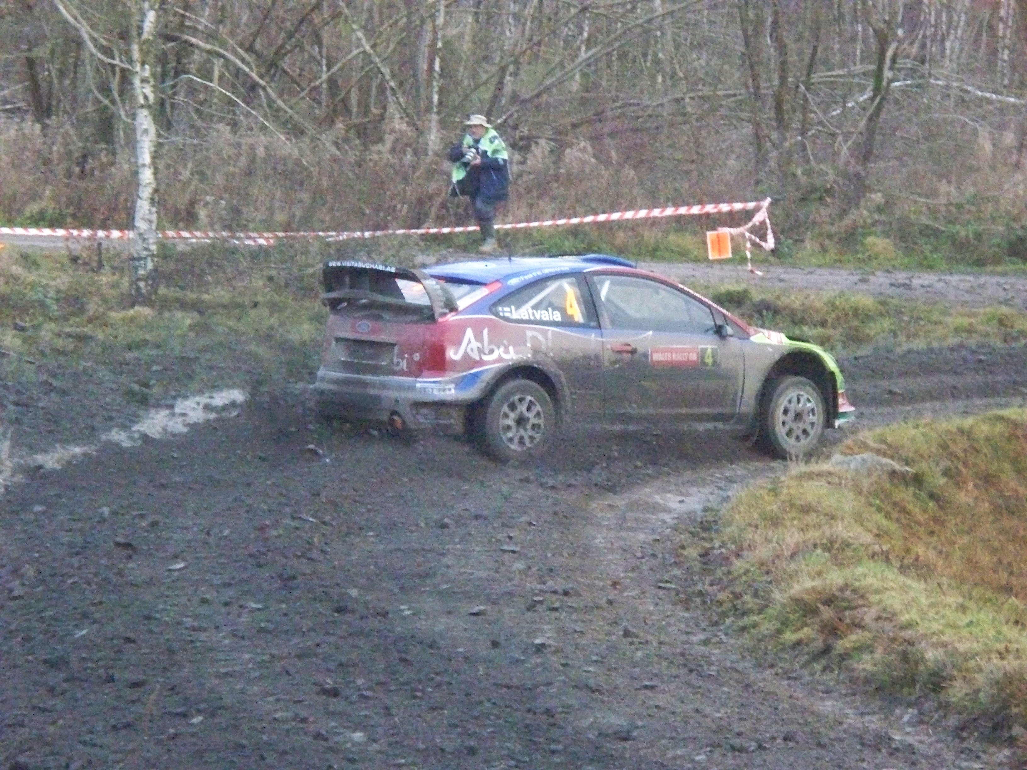 Jari-Matti Latvala at the Shakedown stage of Wales Rally GB 2008